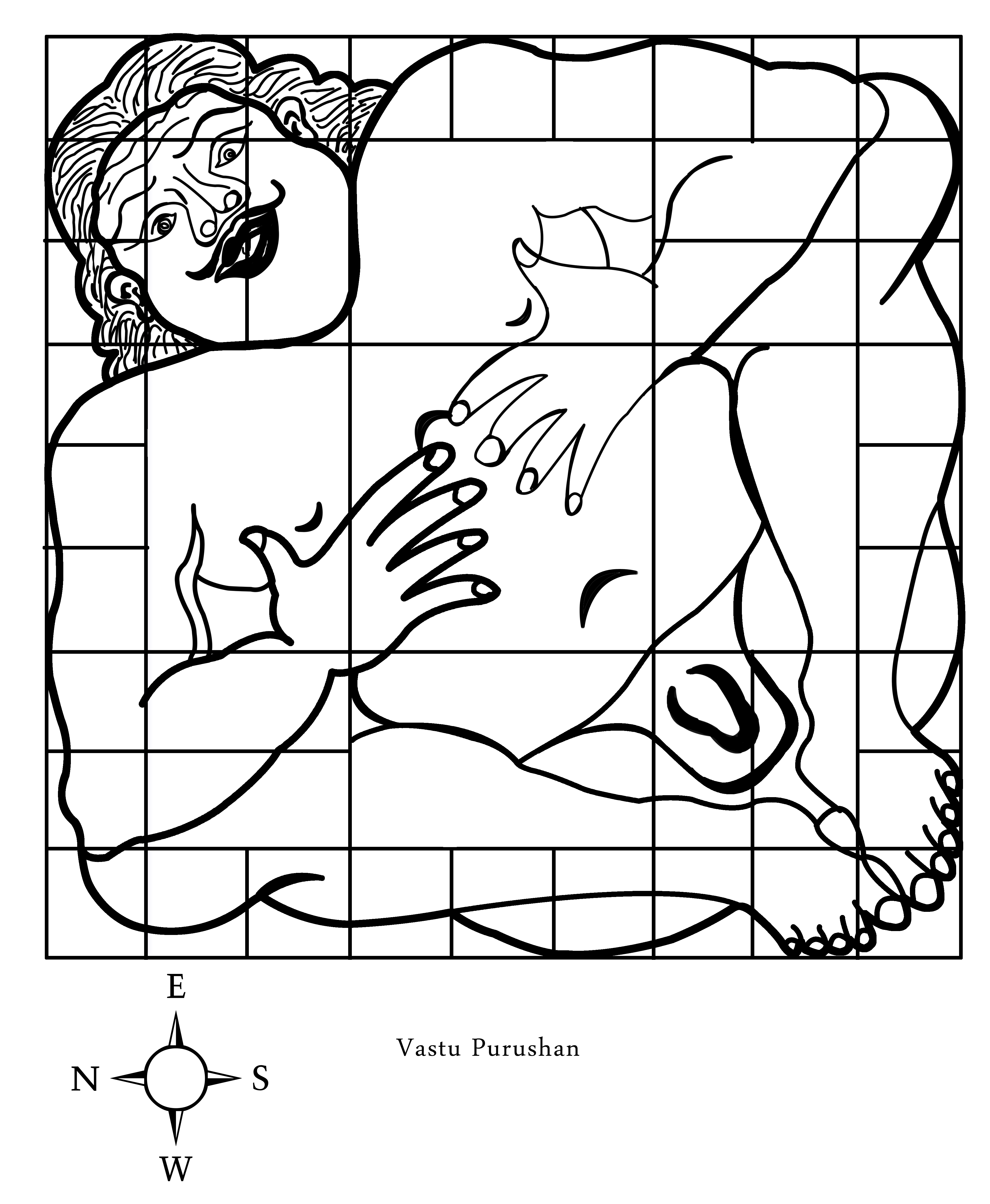 This is the concept drawing of 'Vastu Purushan' in Vastu Sasthra.